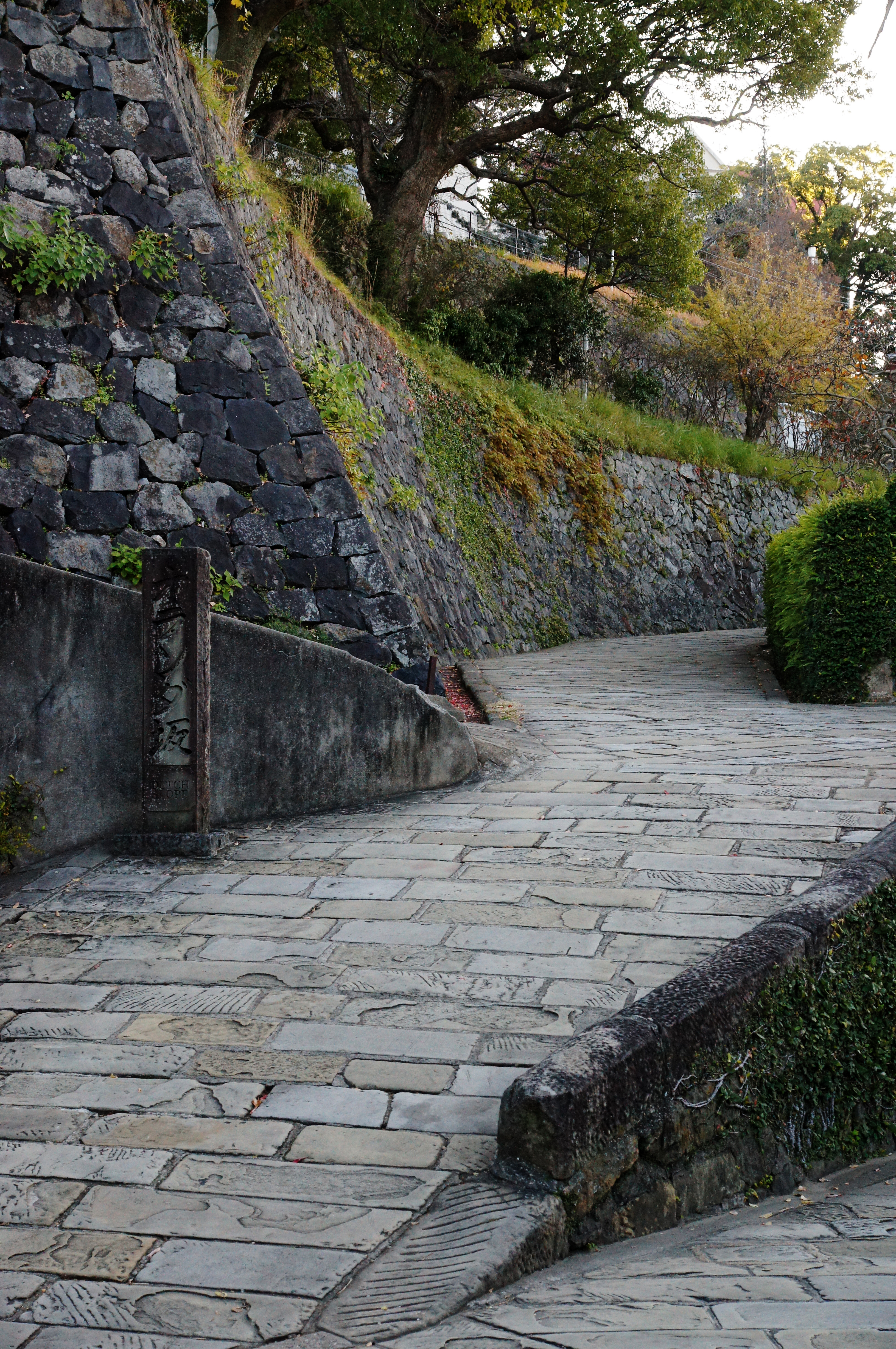 Oranda Zaka (The Dutch slope), Higashiyamate, Nagasaki, Nagasaki prefecture, Japan